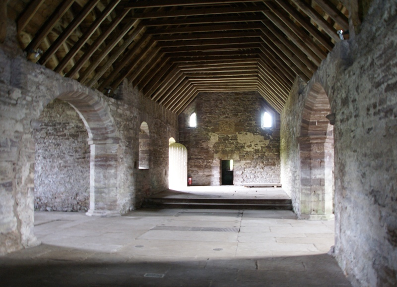 Tullibardine Chapel, Perth and Kinross, Scotland - interior looking west